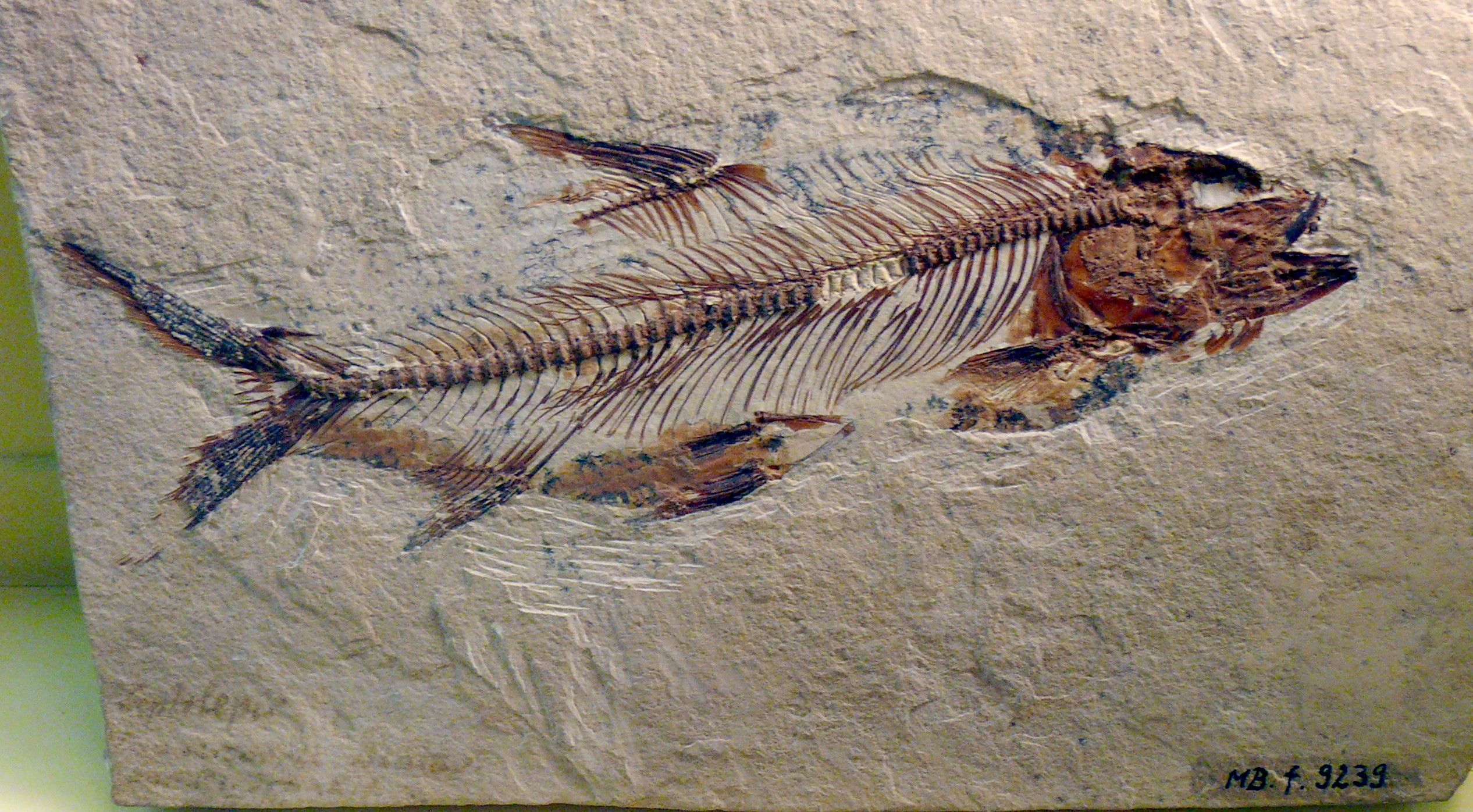 Aethalion knorri from the Jura, Kelheim, Franken, Germany